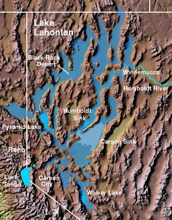 Lake Lahontan © 2004 Matthew Trump